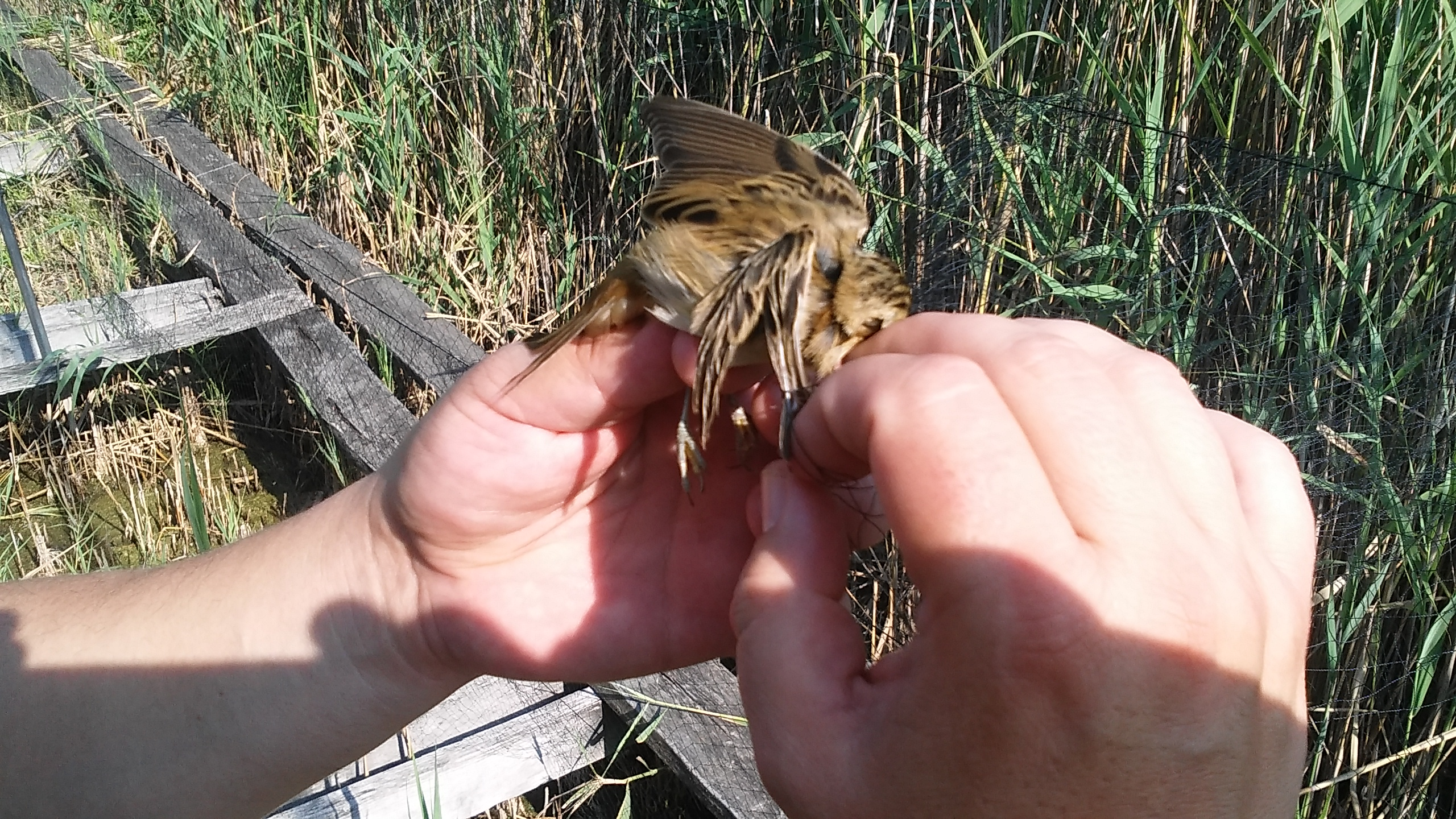 Madárszedés függönyhálóból (foltos nádiposzáta, Ócsa)